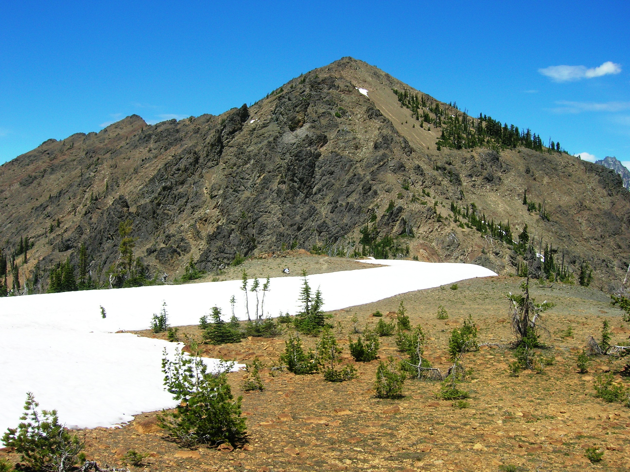 Gene's Peak aka Teanaway Peak. Iron Peak Trail 1399, Kittitas Co. Washington, USA On serpentine rock and soil on Iron Peak